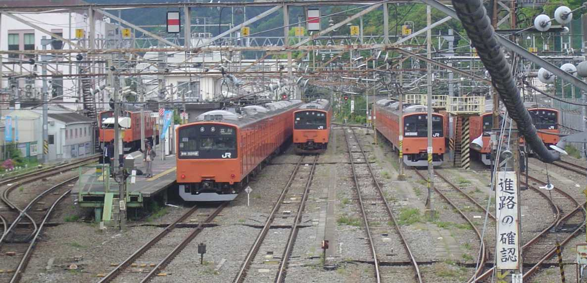 Ome station (JR East Ome line)